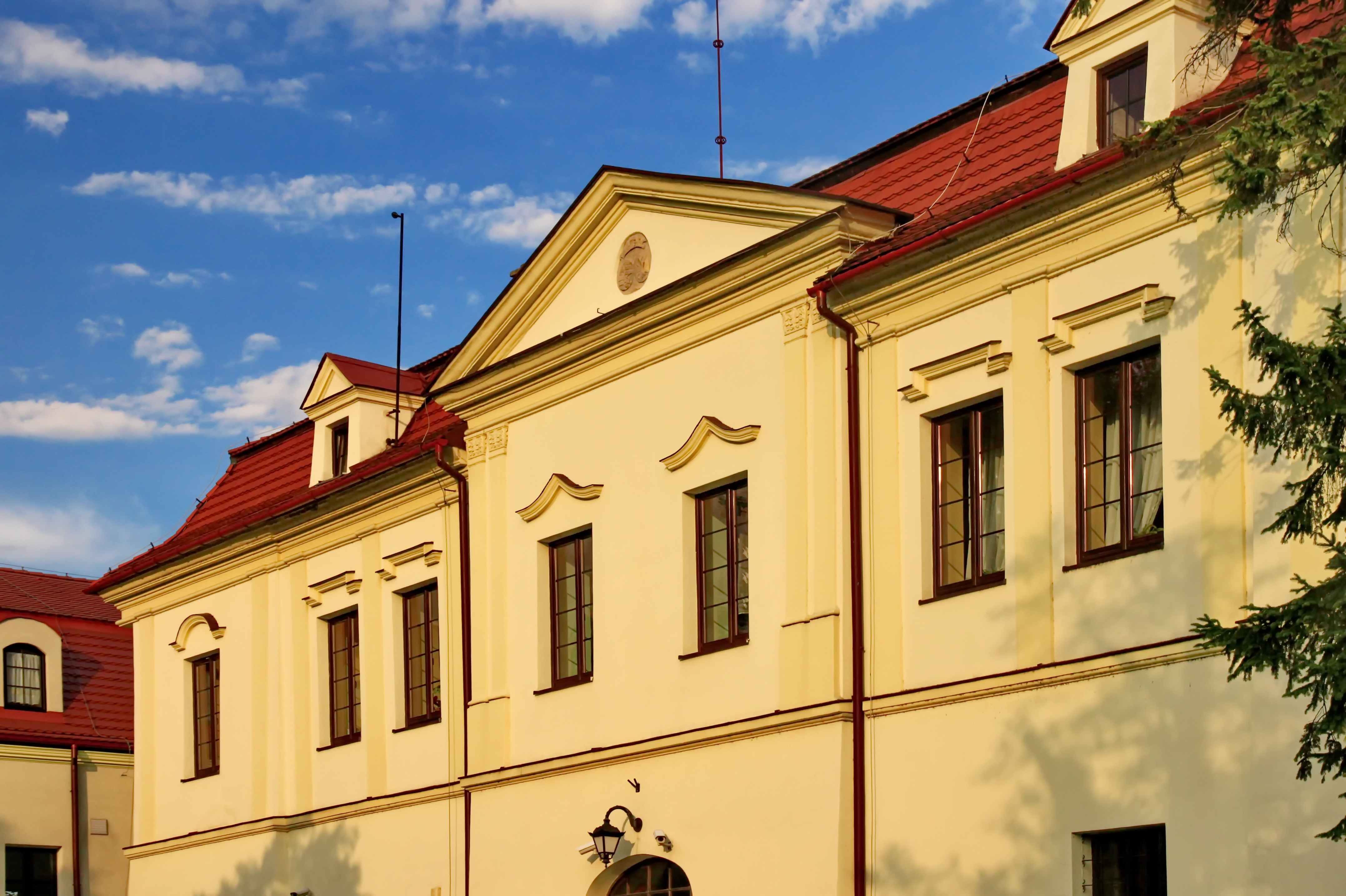 Palace. Zebrzydowice, Silesian Voivodeship, Poland.